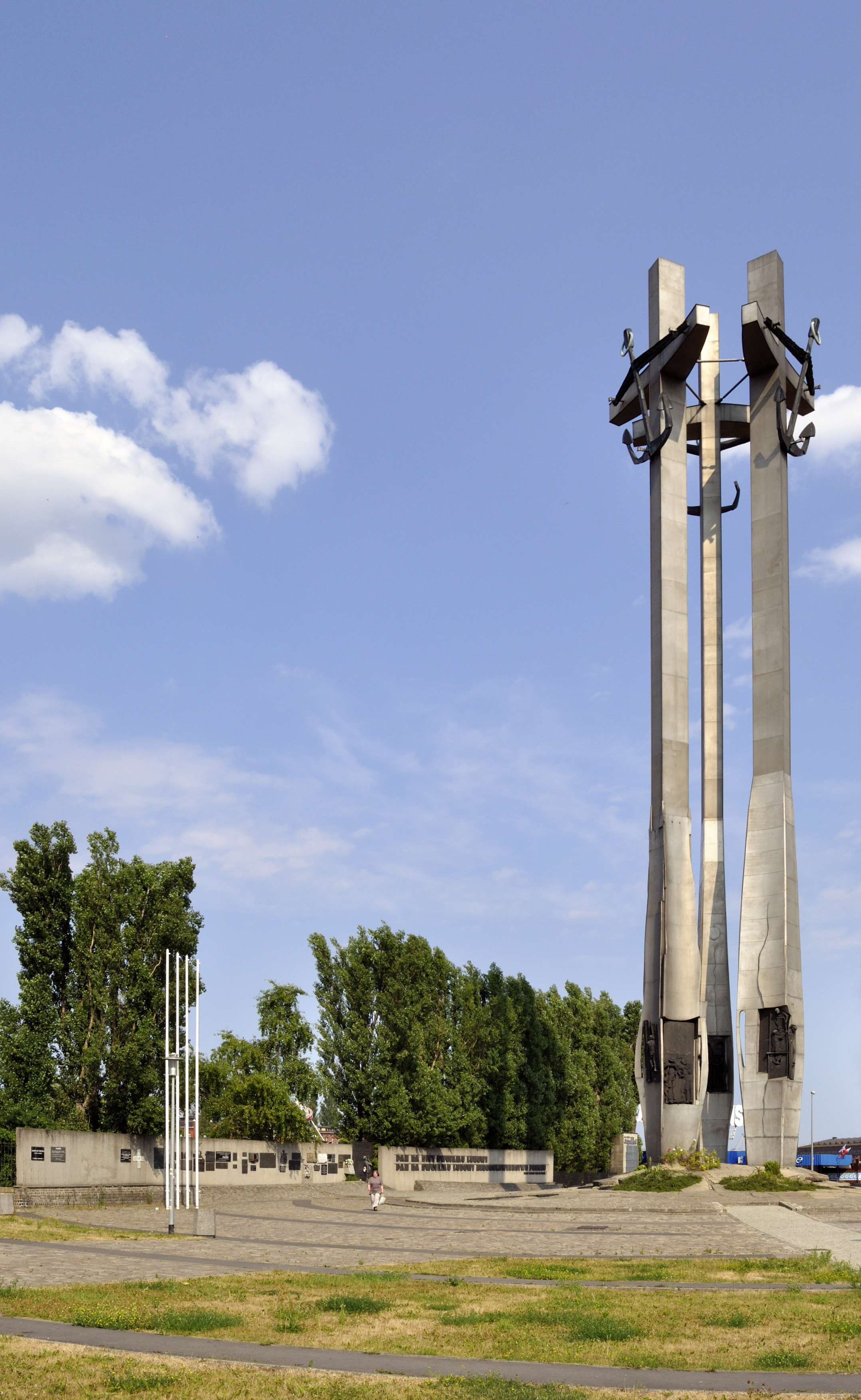 Picture taken in Gdańsk after Wikimania 2010 conference. Monument to the Fallen Shipyard Workers of 1970.